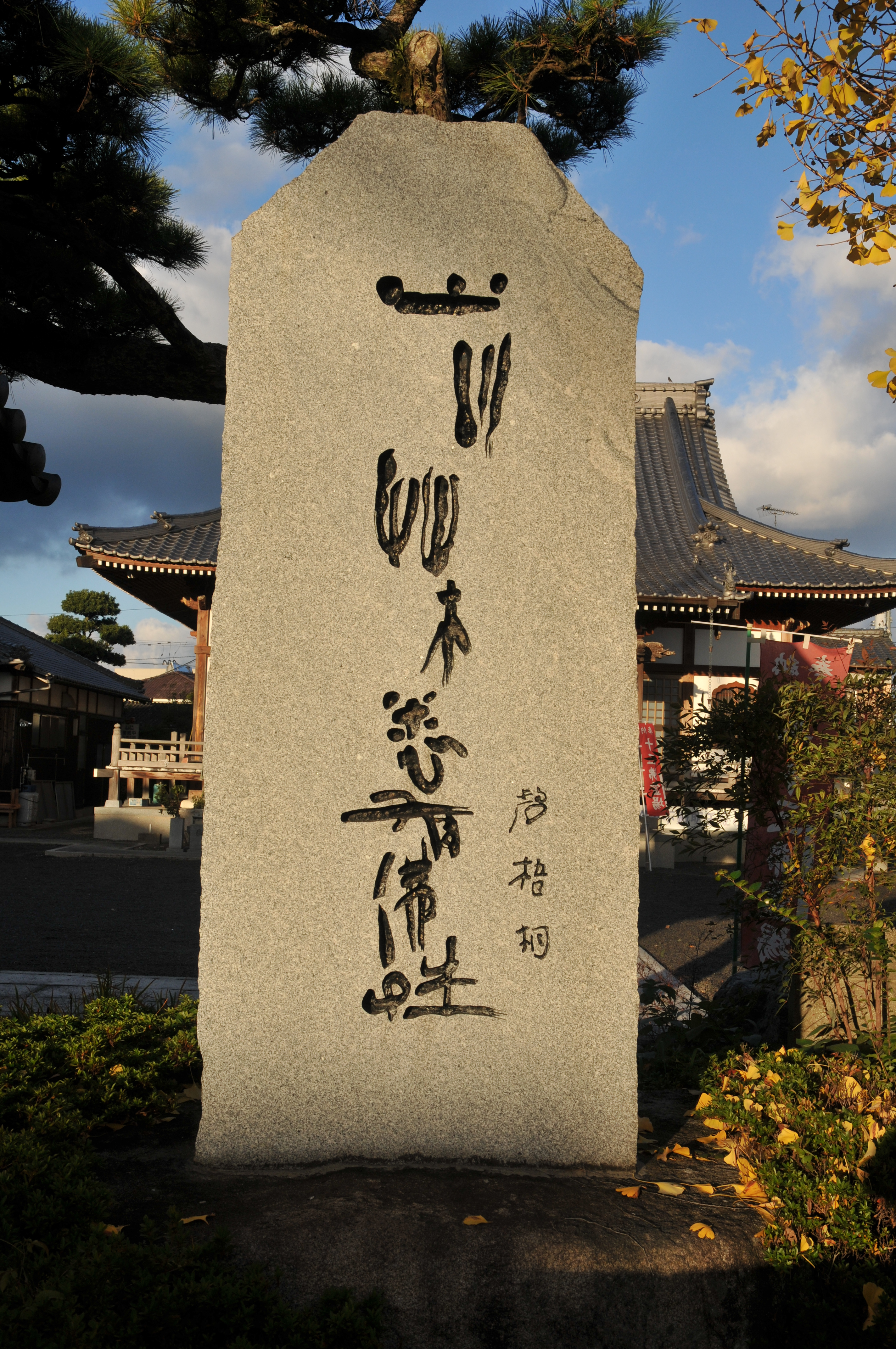 Monument of Kawahigashi Hekigoto, Dairen-ji